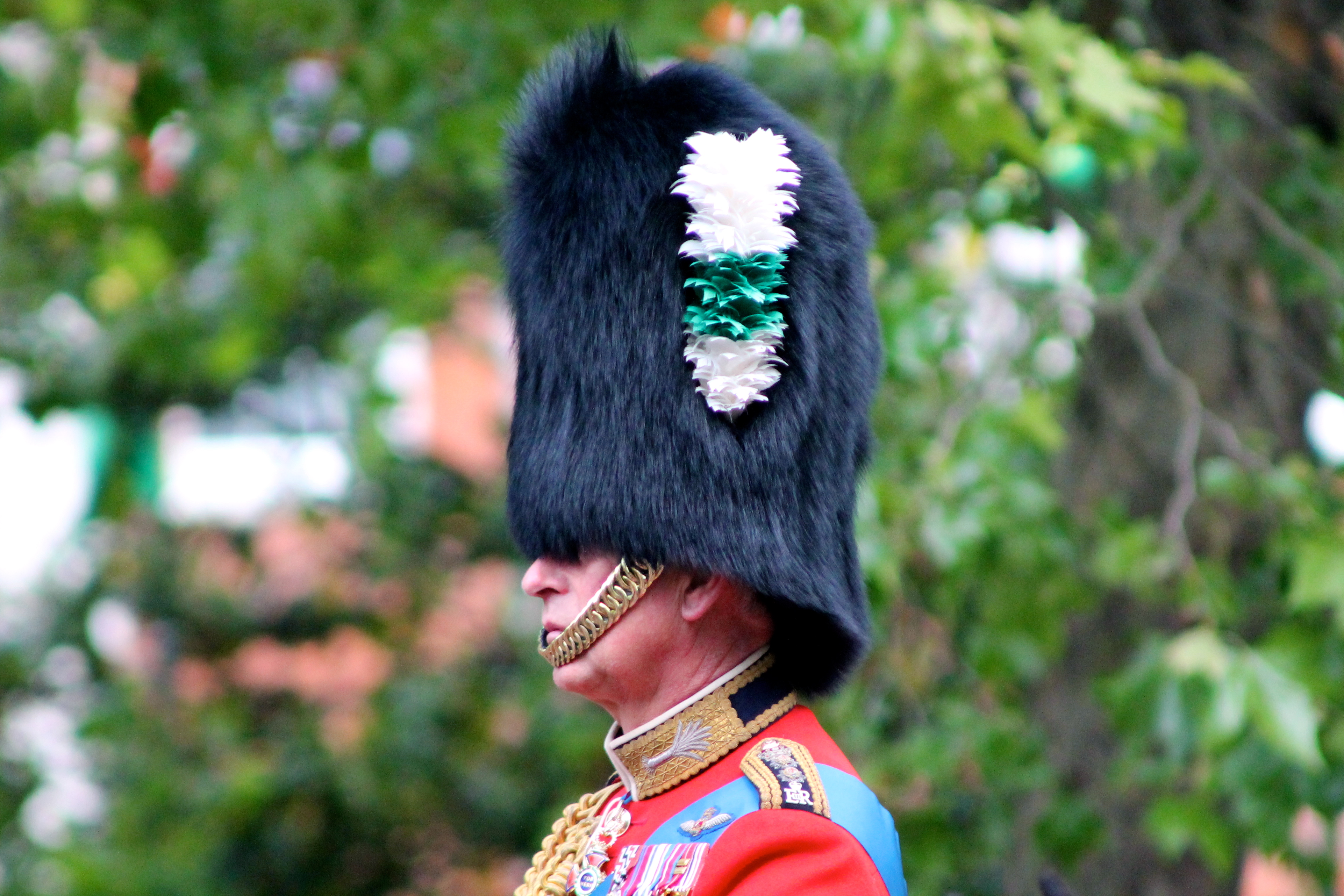 Prince Charles in the uniform of Colonel of the Welsh Guard, Trooping the Colour, June 2012